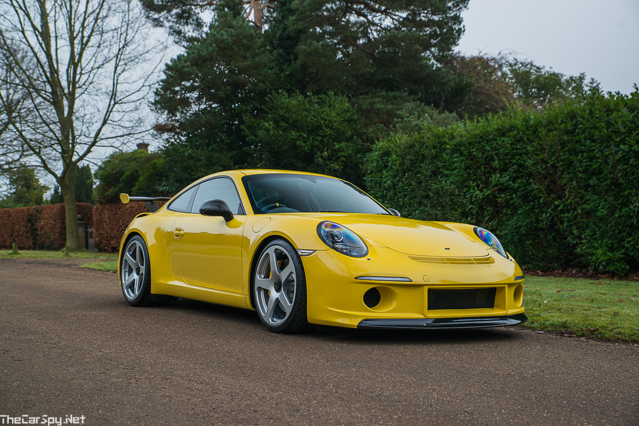 Yellow Ruf RTR narrow body